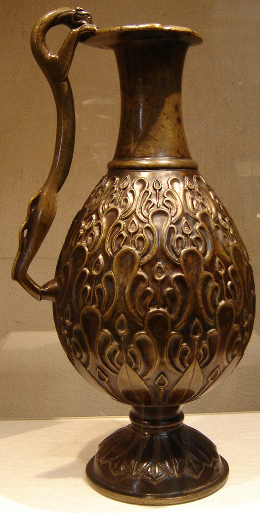 Ewer with a feline-shaped handle.